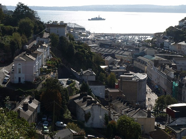 Torquay against the sun Stentiford Hill provides fine views across the deep valley in which Torquay lies. In this case the view south is directly into the sun, with figures on Fleet Street below right, and houses either side of the hairpins on Madrepore Road below the camera. A ship lies in Tor Bay.